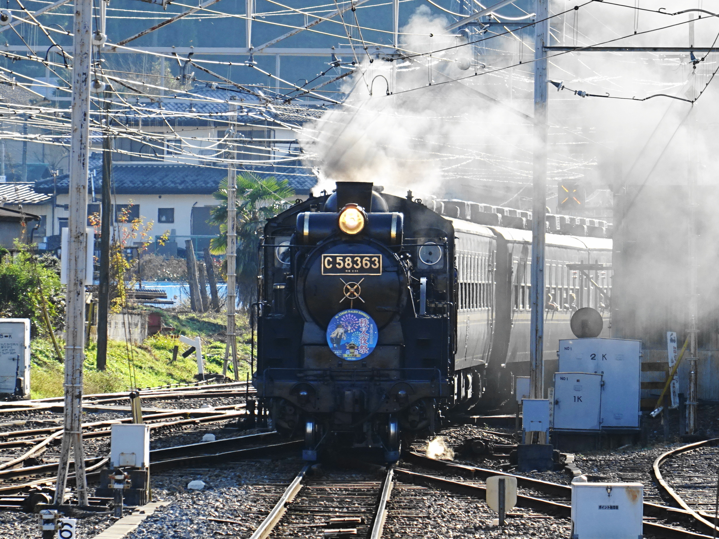 SL Chichibu Yomatsuri